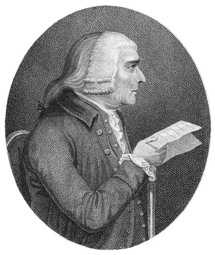 Portrait of Jacob Bryant (1715–1804), British scholar and mythographer.